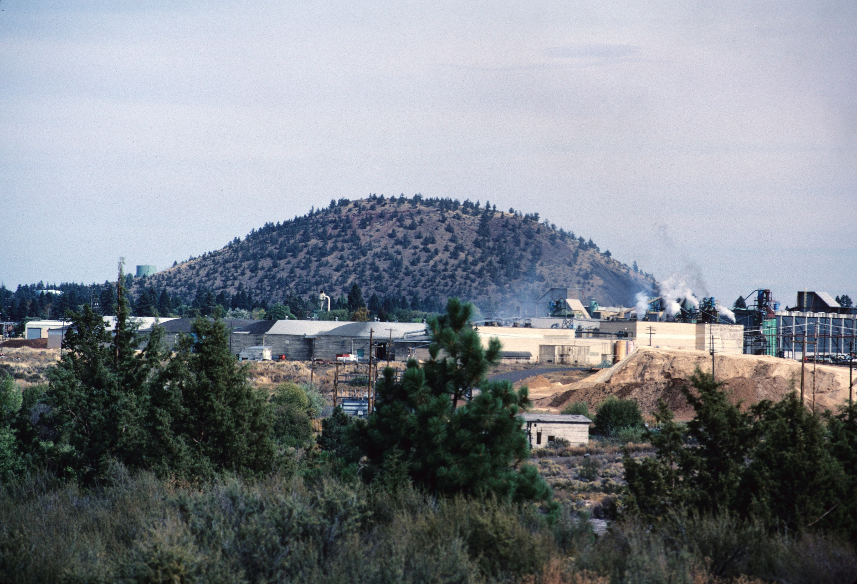 Image of Pilot Butte, Bend, Oregon